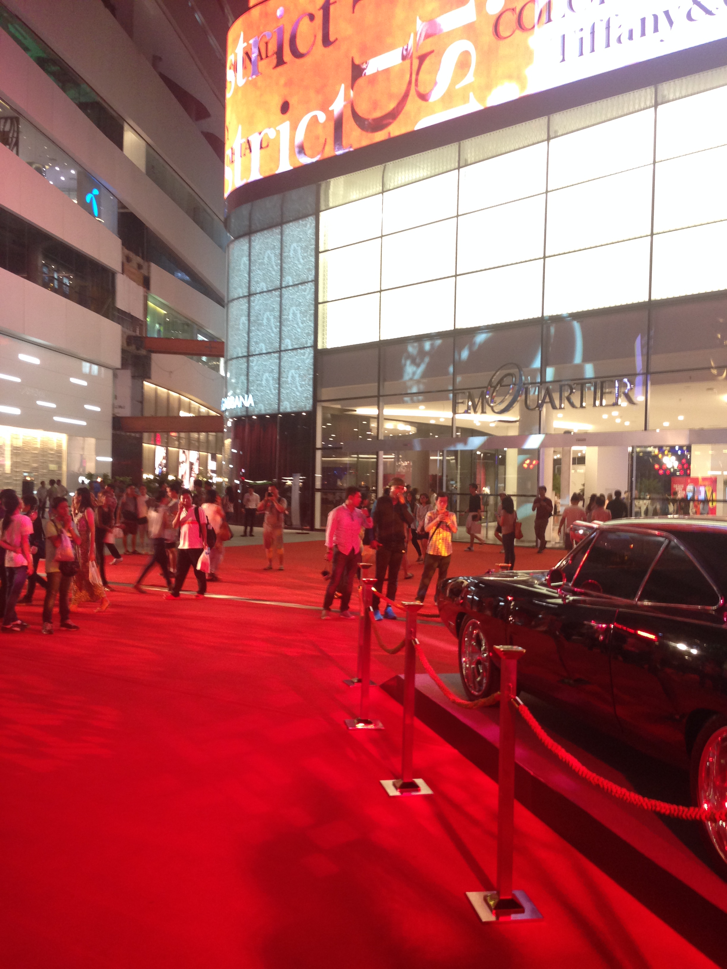 Emquartier on April 1, 2015.